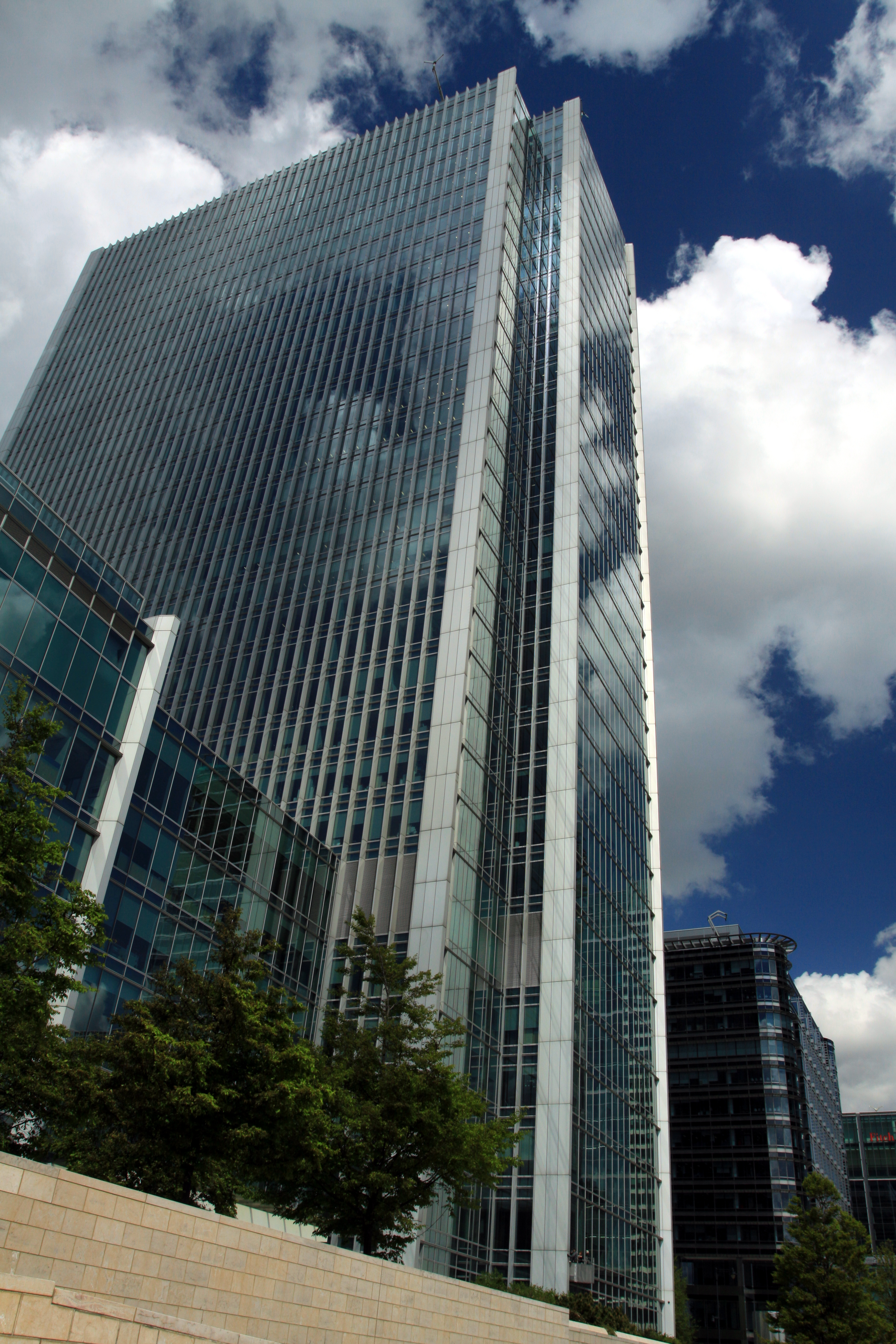 10 Upper Bank Street skyscraper in the London Borough of Tower Hamlets, London, England, Great Britain The making of this file was supported by Wikimedia UK.